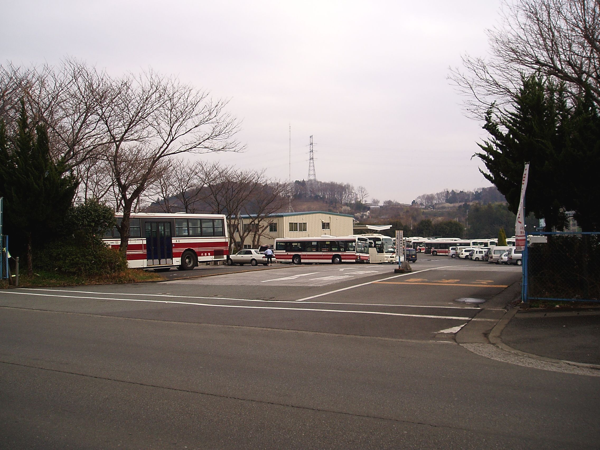 Odakyu Bus Machida Depot